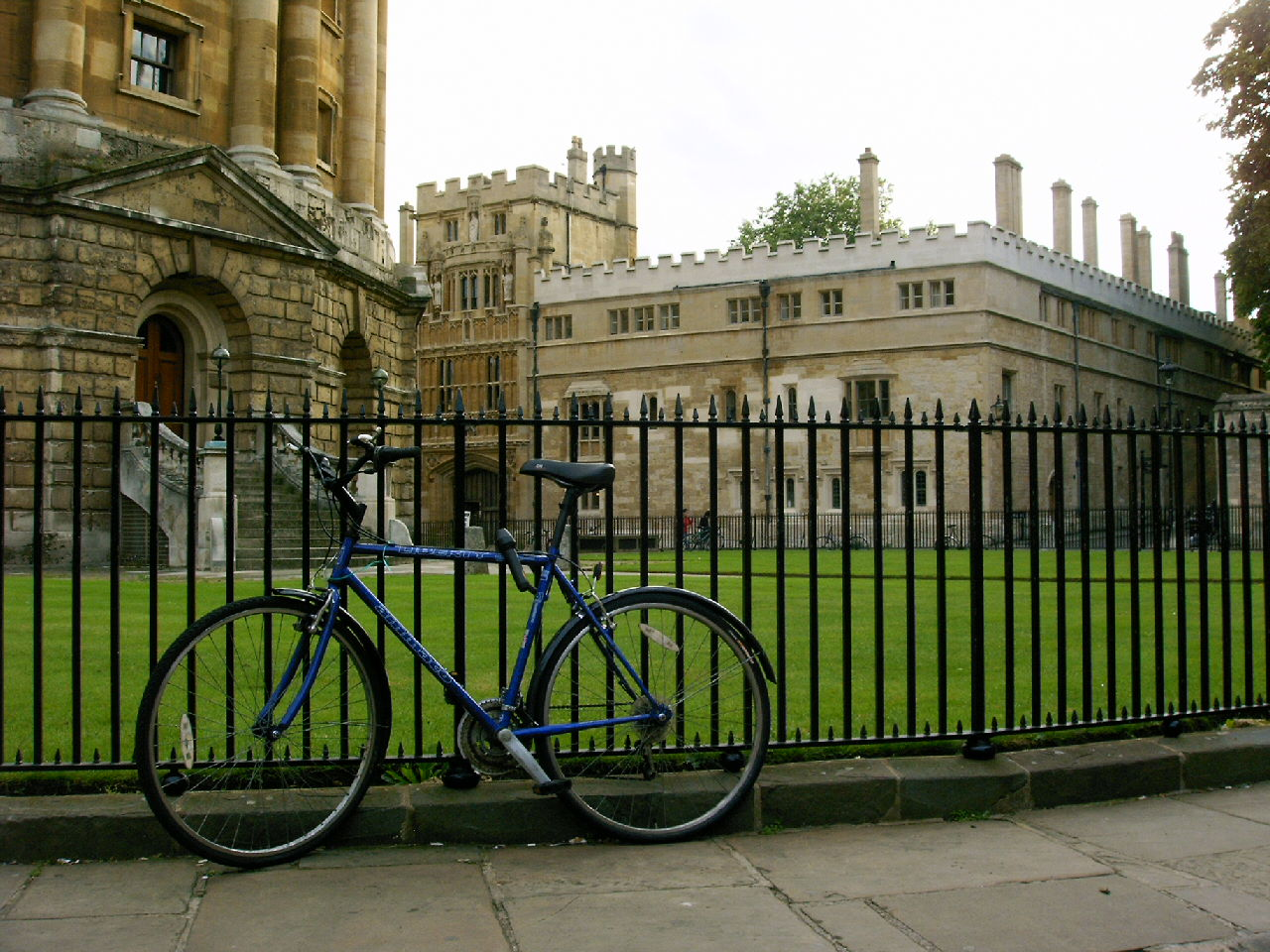 A bicycle leaning against the railings surrounding the Radcliffe Camera in Radcliffe Square, with Brasenose College in the background, in Oxford, England.